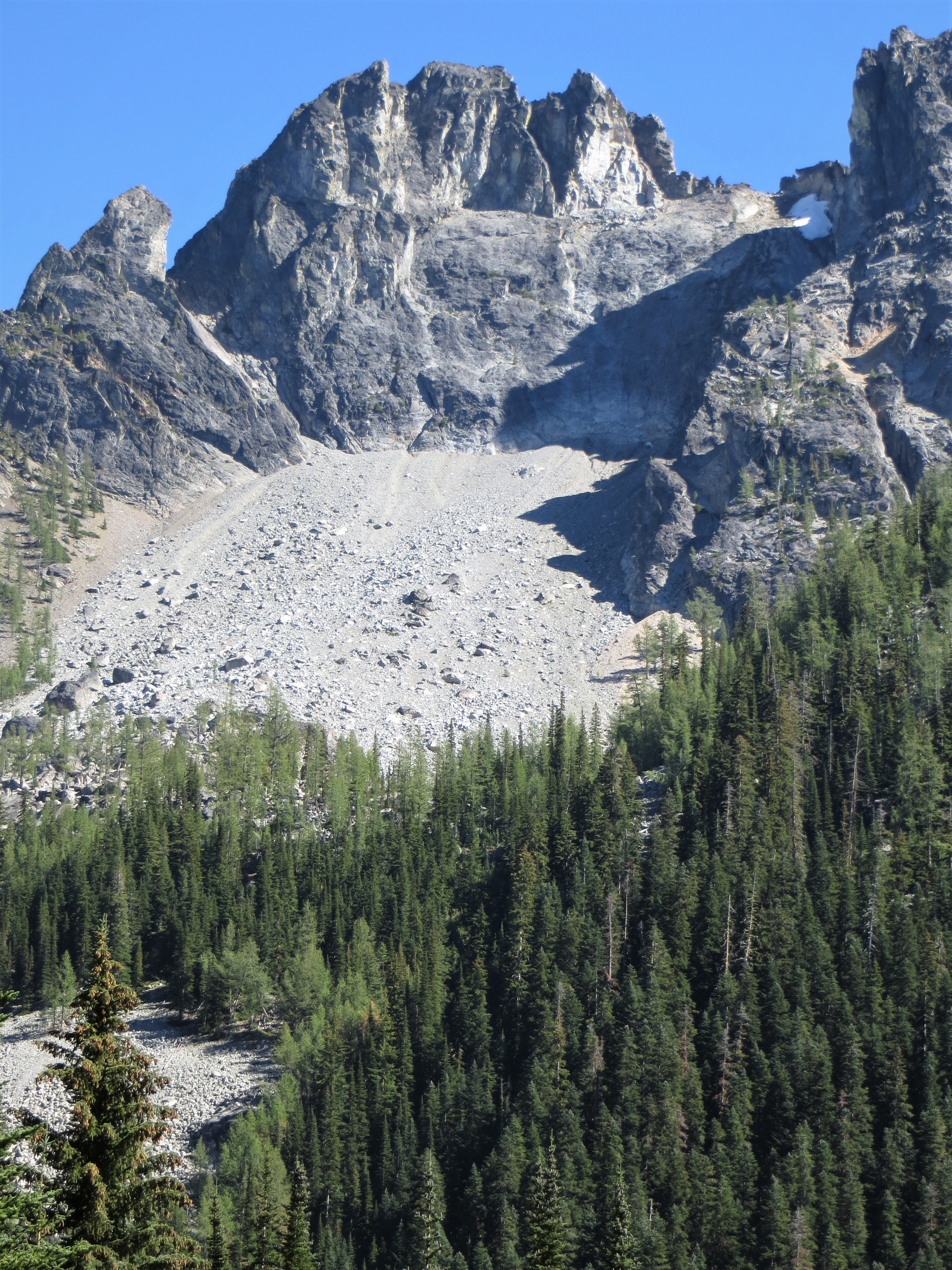 Emerald Park Peaks, Bearcat Ridge